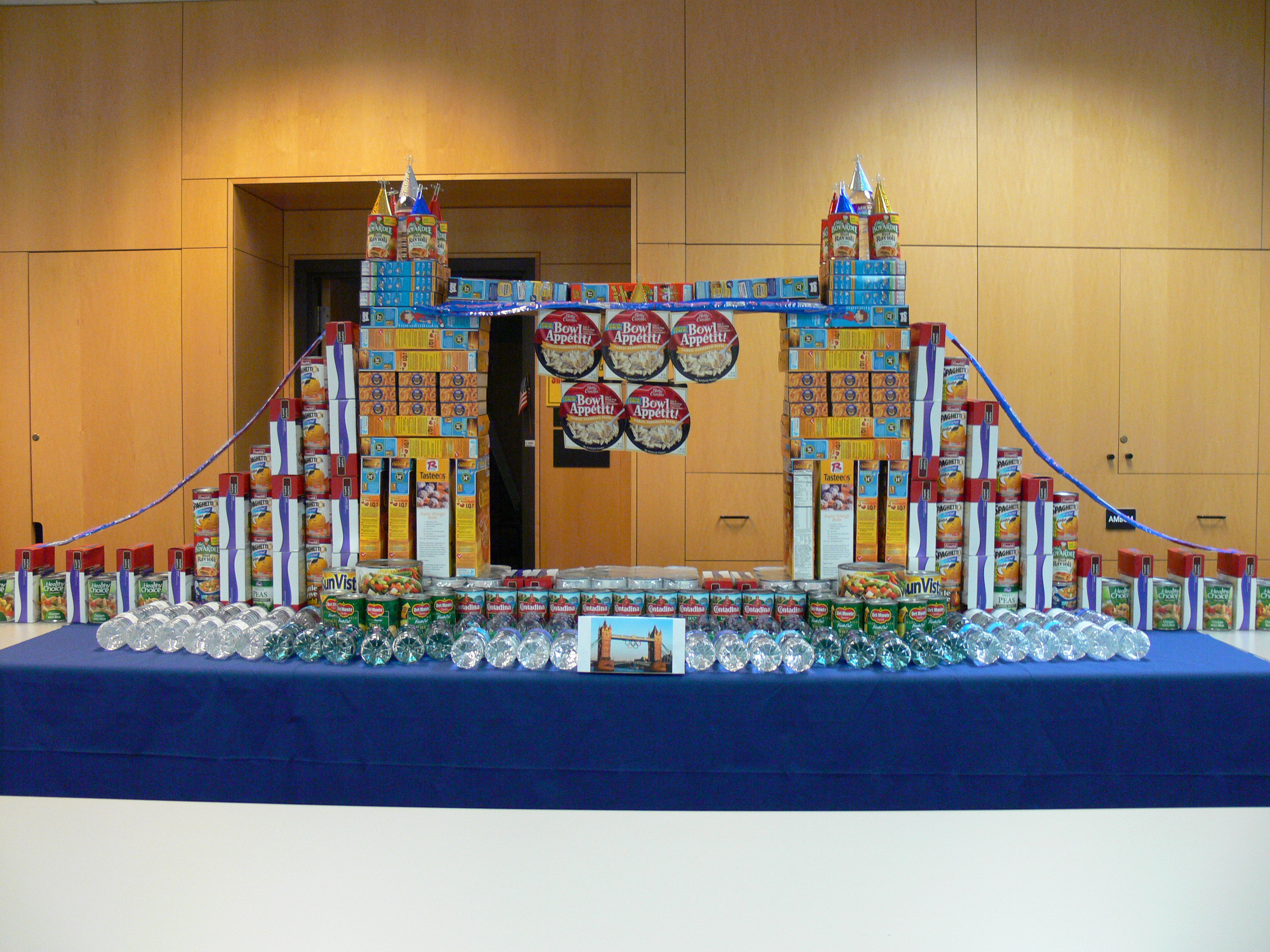 Congratulations to the Nevada Site Office for their First Place finish (as the site-submitted entry) in the Feds Feeding Families CANstruction Sculpture Competition on August 21, 2012. All received trophies presented by Associate Deputy Secretary, Mr. Mel Williams.